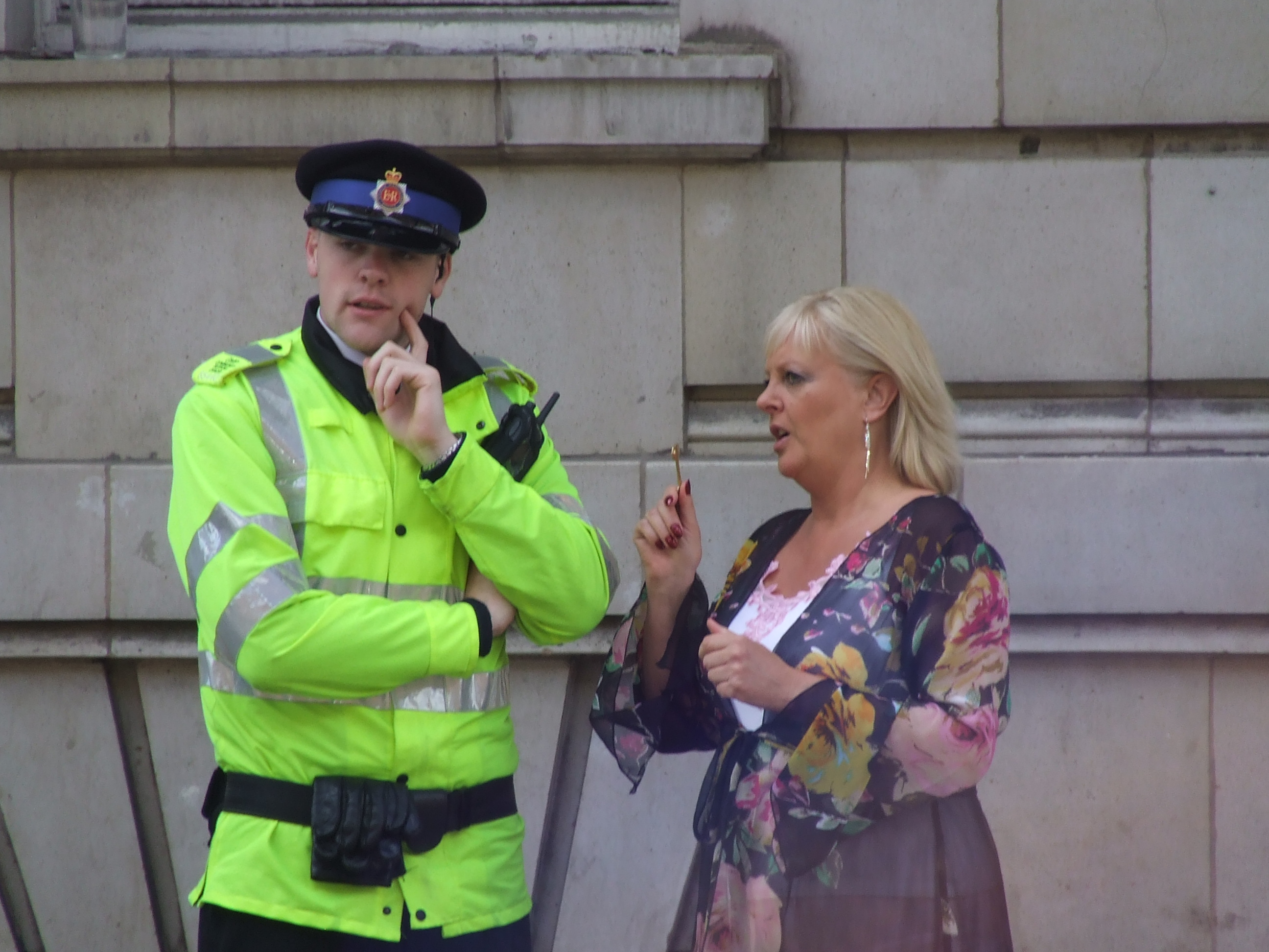 Lady talking to Greater Manchester police outside Scientology centre (scientology manchester)